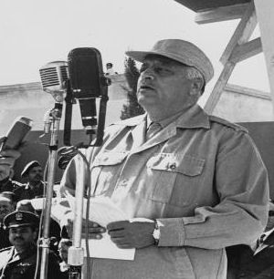 The founder of the PLO – Ahmad Shukeiri